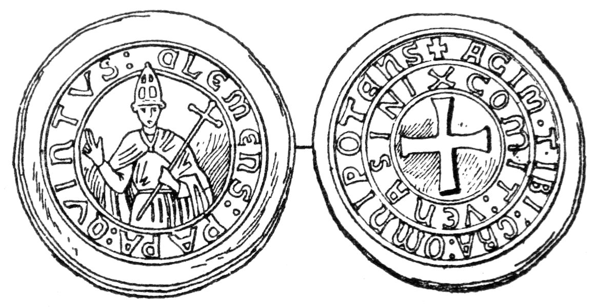 Coin of Pope Clement V (1305-14). See a similar coin here.